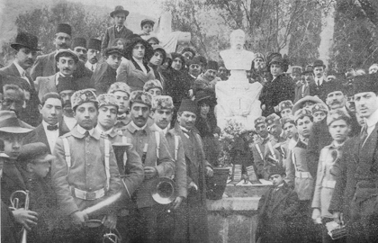 The Penklyan Company of actors and the musical band “Кnar” in front of the memorial of Tigran Chukhajyan